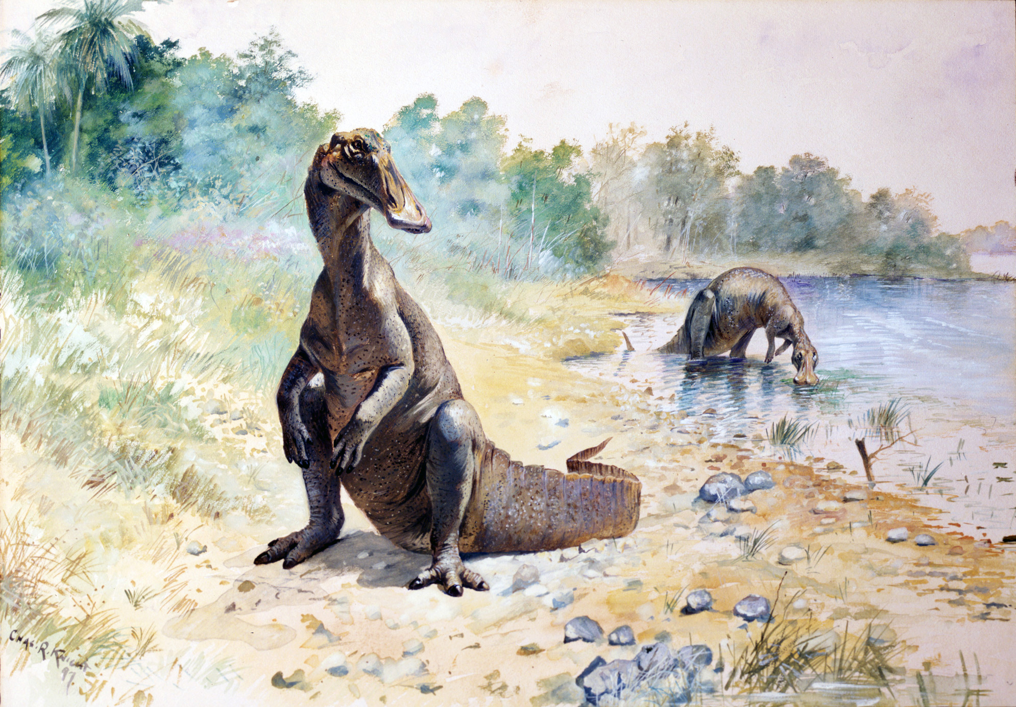 Historical life restoration of “Hadrosaurus mirabilis” (i.e. Edmontosaurus annectens aka Anatoasaurus copei) by a lake.